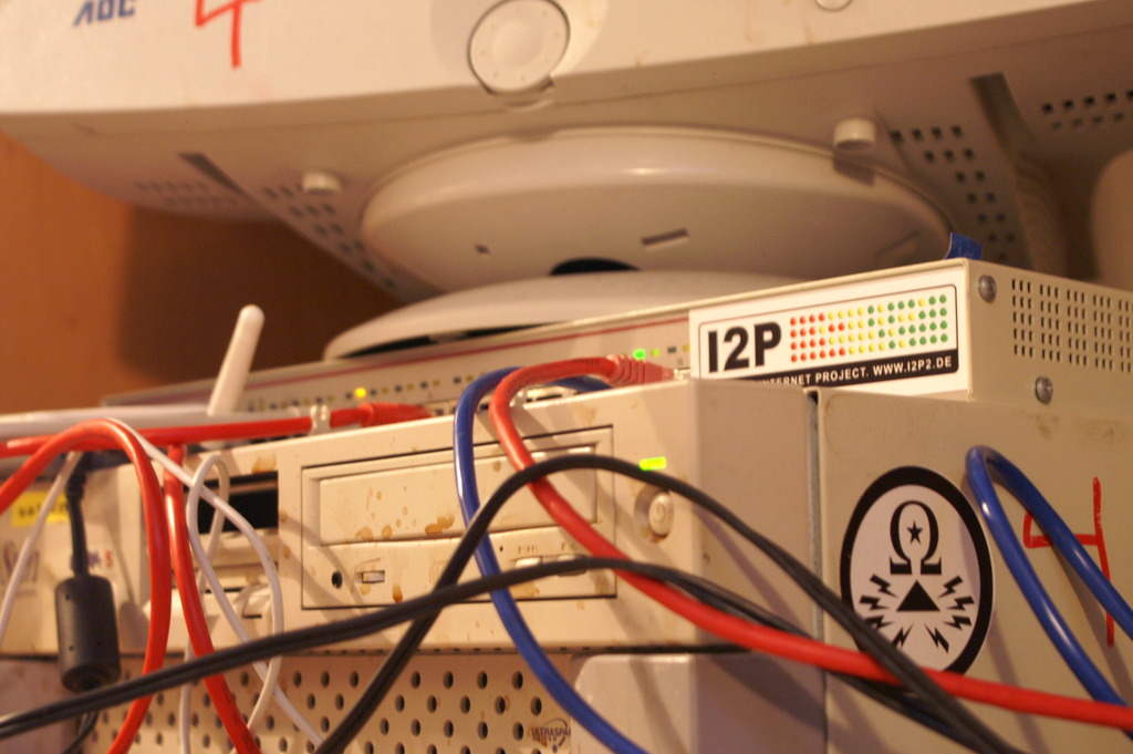 One of the first servers in the Telecomix infrastructure. A SPARC processor running Debian Lenny.